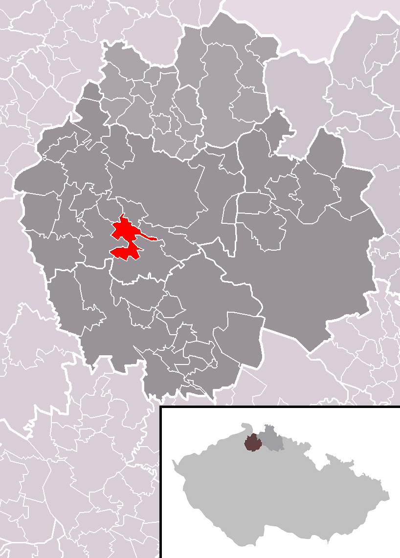 Location of Zahrádky municipality within Česká Lípa District and administrative area of Česká Lípa as a Municipality with Extended Competence.